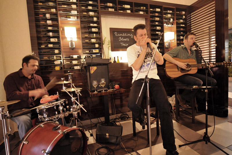 Rambling Blues Trio